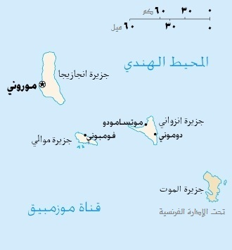 جزر القمر= Arabic Translation of the existing map of the Comoros.